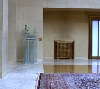 clemens weiss: sculpture regarding non-proliferation of nuclear weapon, united nations, geneva 1996